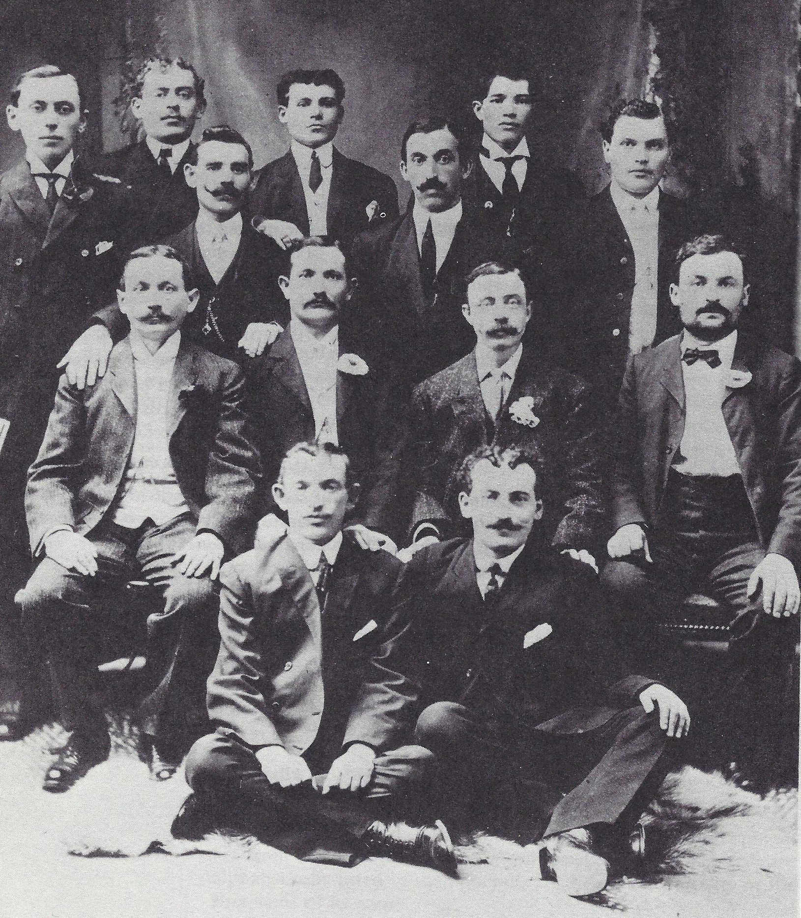 Storozneter Kukowiner Sick and Benevolent Association